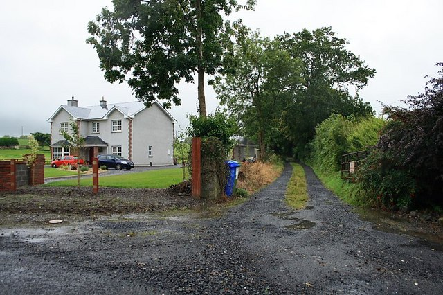 House and Laneway New house and laneway near Lynn Cross.